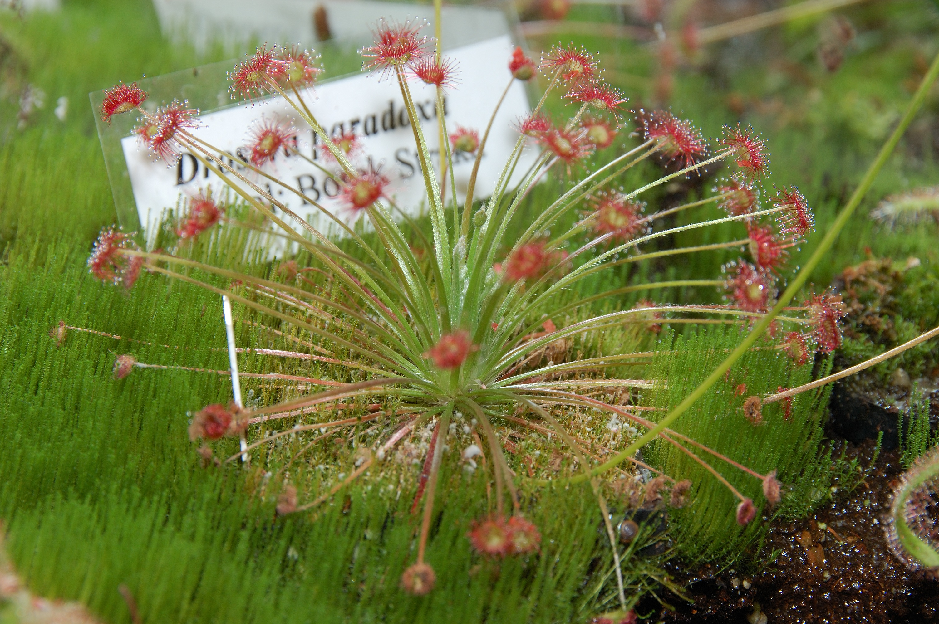 tentacles of Drosera paradoxa